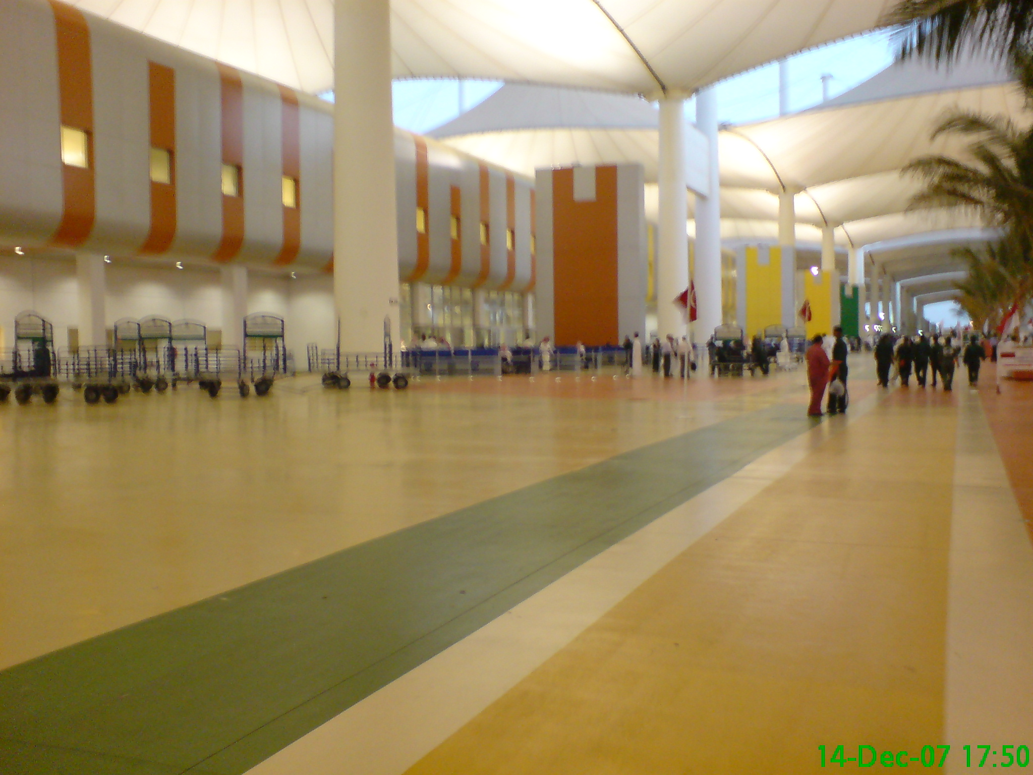 The new Hajj Terminals of King Abdulaziz Airport